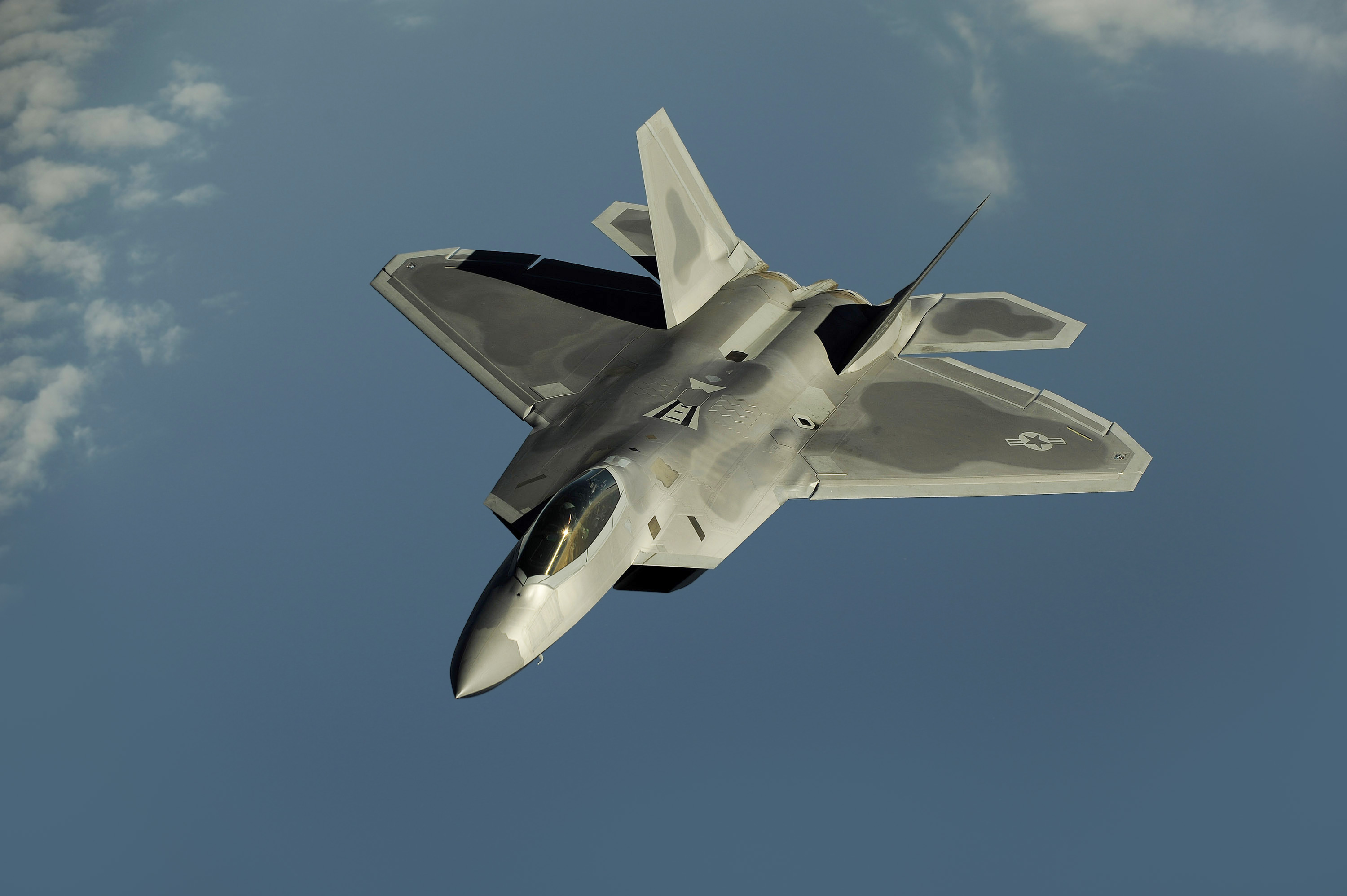 An F-22 Raptor flies over Kadena Air Base, Japan, Jan. 23 on a routine training mission. The F-22 is deployed from the 27th Fighter Squadron at Langley Air Force Base, Va.